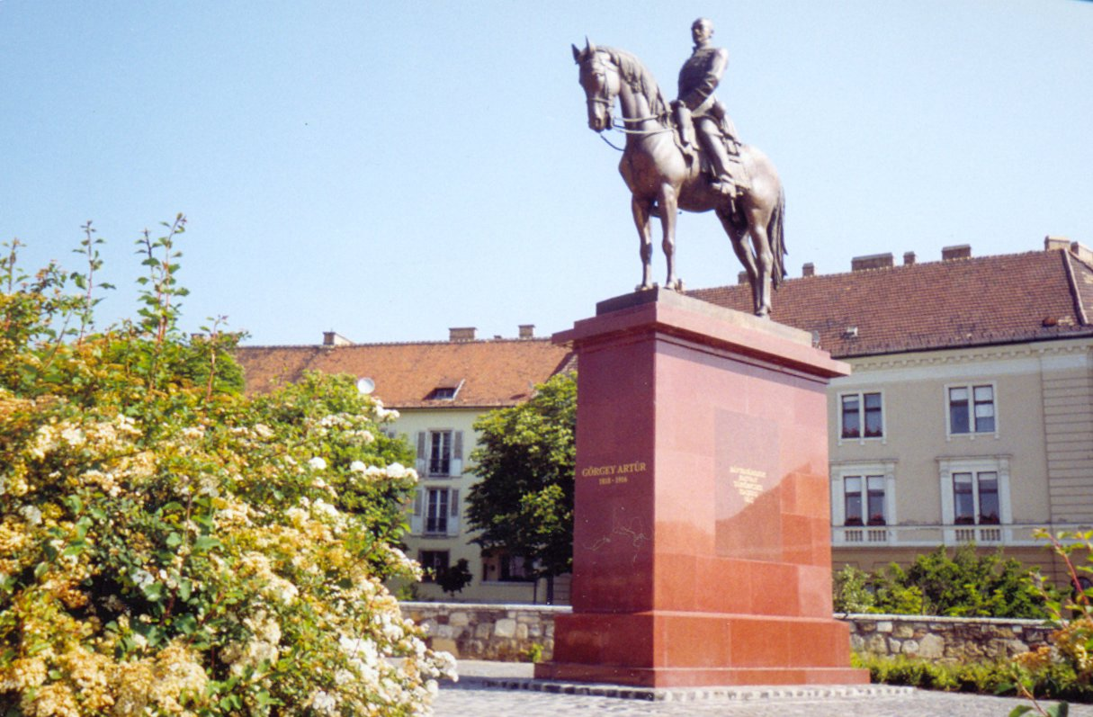 Statue of Artúr Görgei (Hungarian military leader in the Revolution of 1848-49) an equestrian bronze statue, a replica by László Marton in 1998. The original ordered by Gyula Gömbös made by György Vastagh, Jr. in 1935 located on the top of Fehérvári Rondella in Várnegyed neighbourhood (on Buda Castle Hill), Budapest District I.